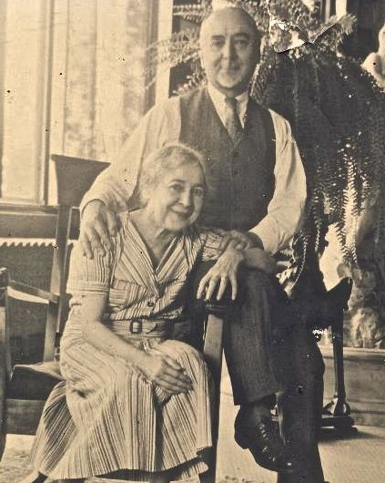 Oscar Dufresne and his wife Alexandrine Pelletier, in the solarium, about 1930.